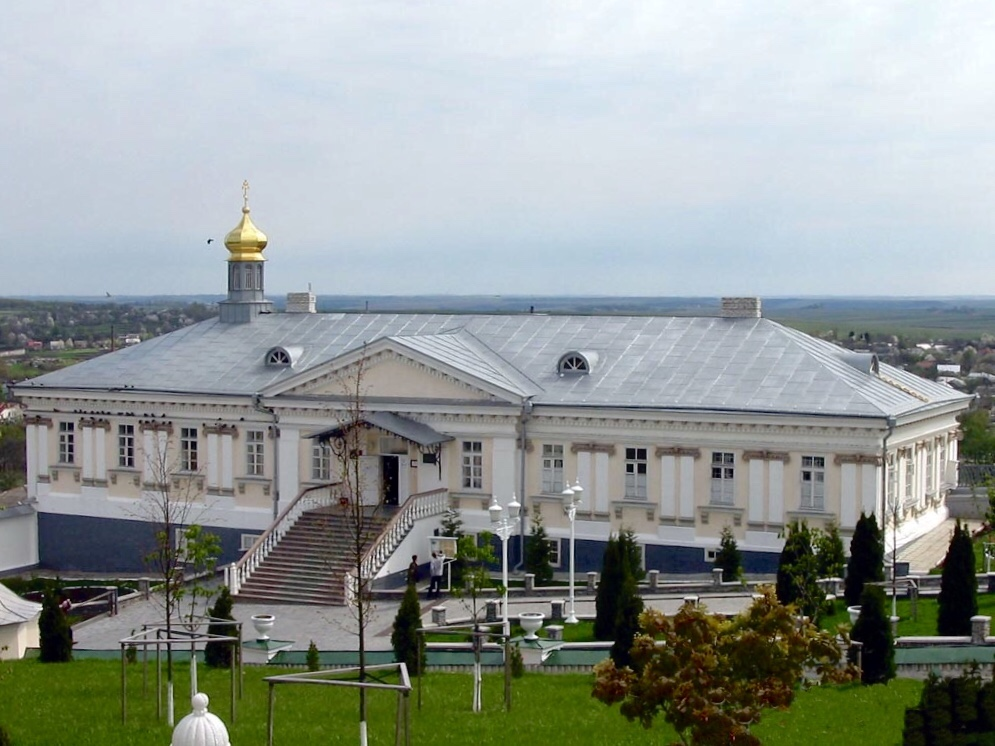 Clergy house